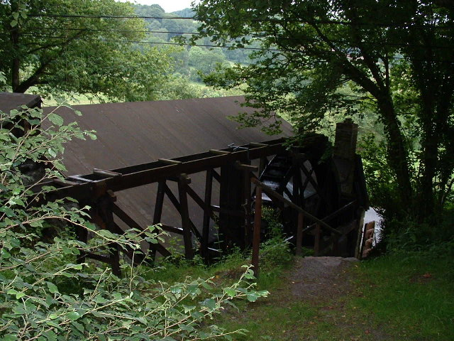 The Kelly Mine. An interesting Dartmoor visit - look at to see what goes on at this preserved micaceous haematite mine.